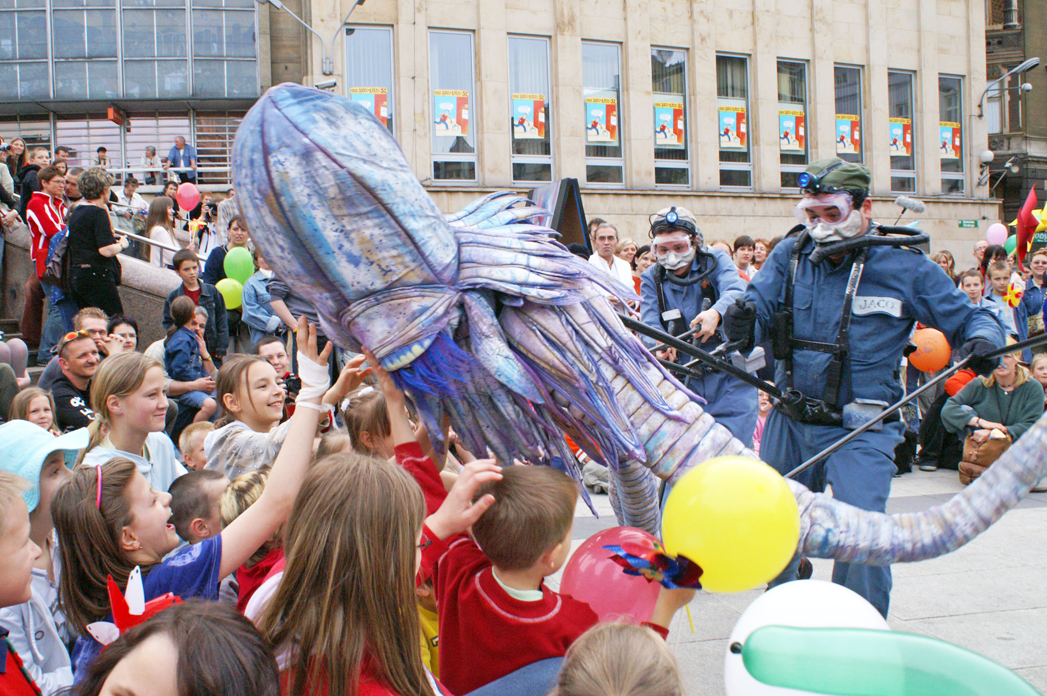 International Festival of Puppetry Art, Bielsko-Biala, Poland, 2006 Street perfomance of group Les Sages Fous (Canada)